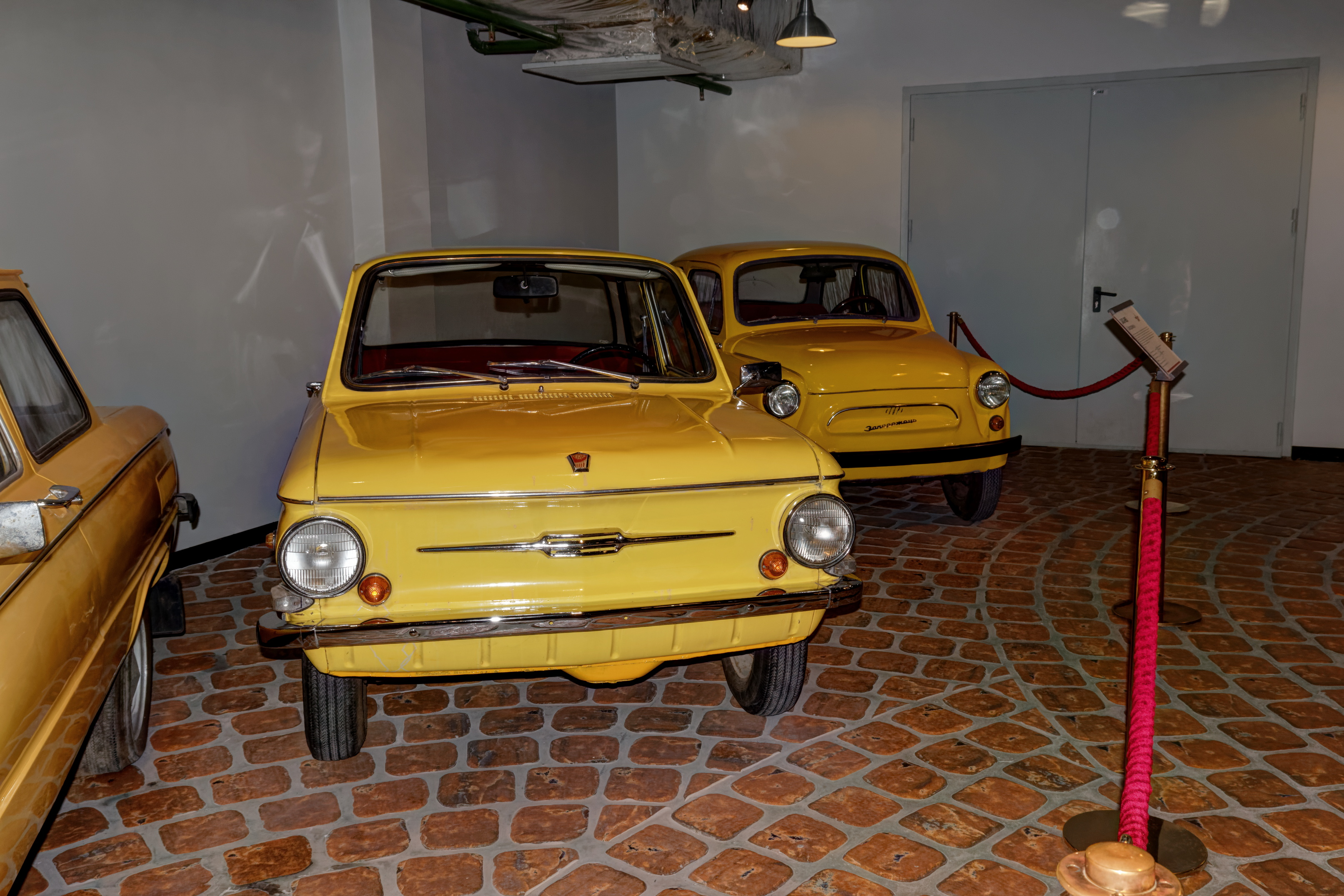 Arkhangelskoye. Vadim Zadorozhny’s Vehicle Museum. ZAZ-968 and ZAZ-965